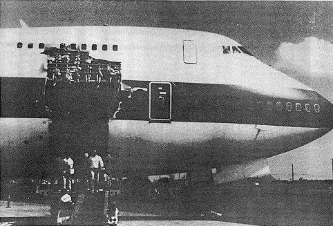 An NTSB photograph from the final report depicting the damage down to United 811